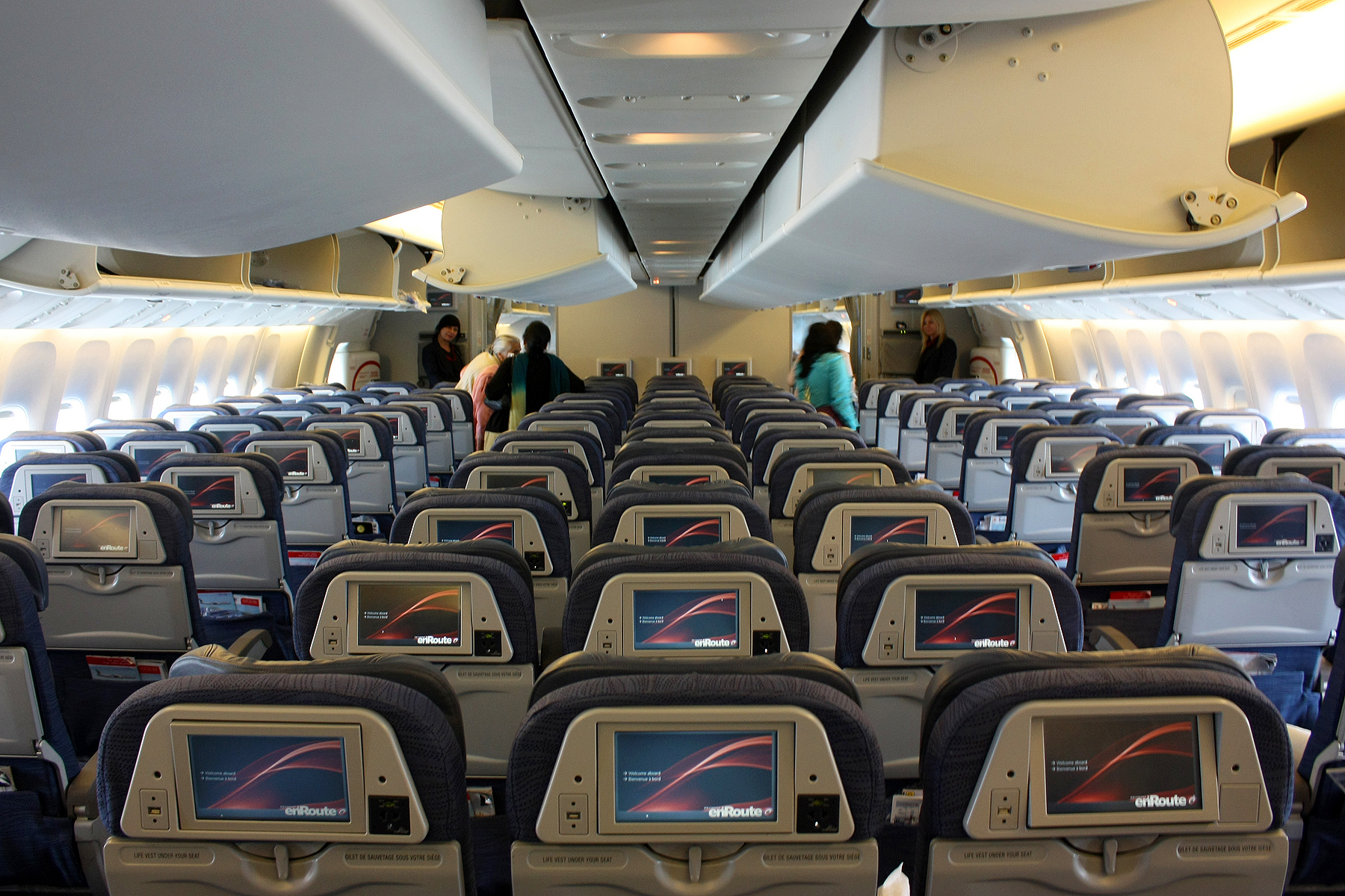 Air Canada economy class in a Boeing 777-300ER